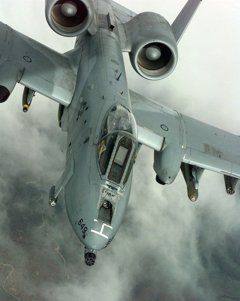 A U.S. Air Force A-10A Warthog, from the 52nd Fighter Wing, 81st Fighter Squadron, Spangdhalem Air Base, Germany, in flight during a NATO Operation Allied Force combat mission, Apr. 22, 1999.